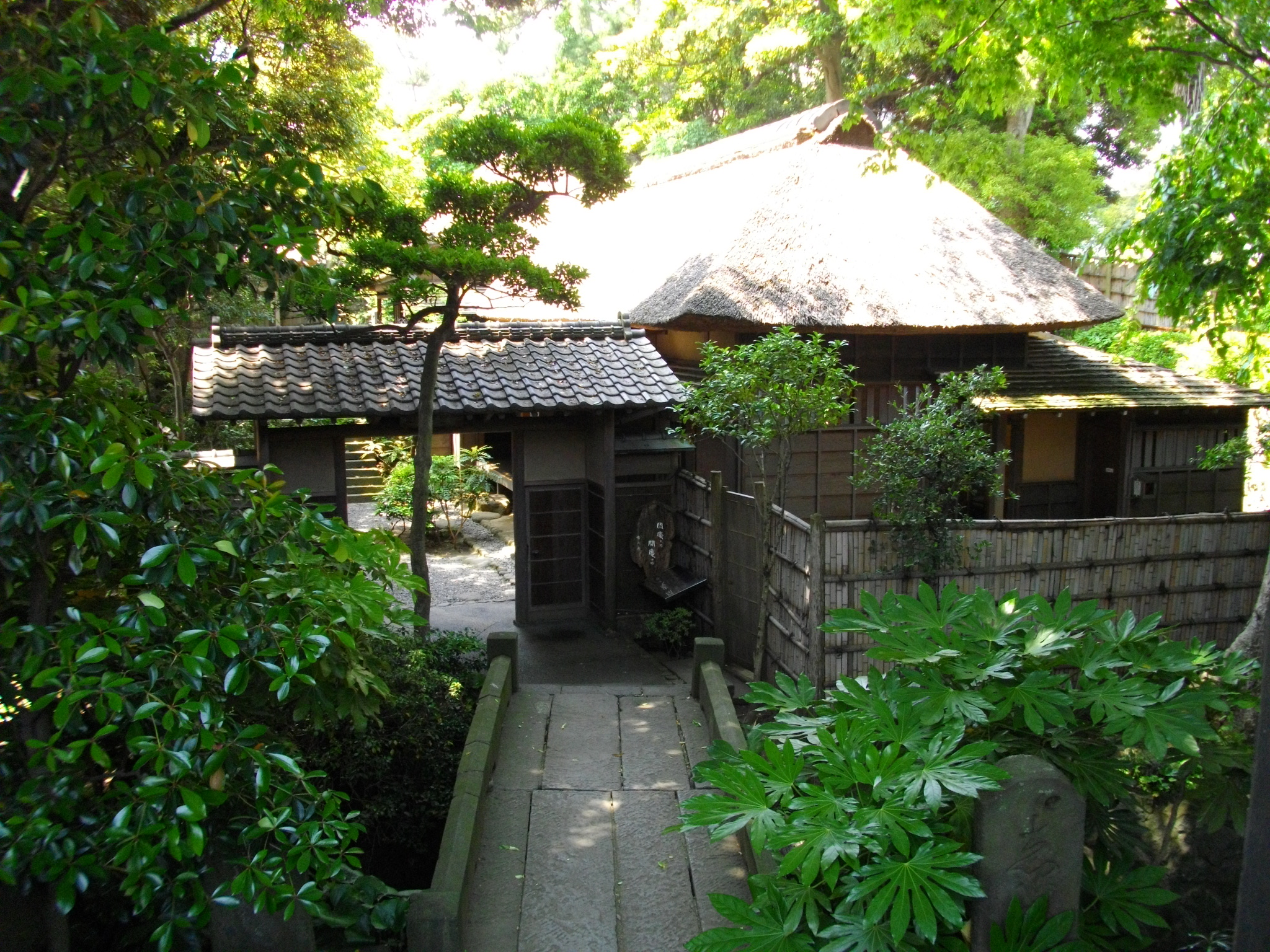 Shigitatsuan